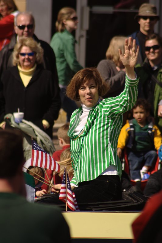 Dane County Executive Kathleen Falk waves to the crowd during the 2009 St. Patrick's Day Parade in Madison, Wisconsin, on March 15, 2009.